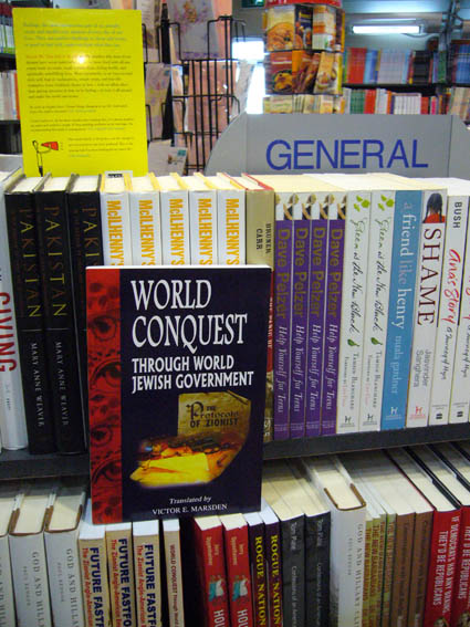 Photograph of a Malaysian edition of the Protocols of the Elders of Zion for sale at Kuala Lumpur International Airport